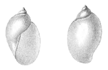 drawing of apertural and abapertural view of the shell of Radix natalensis.